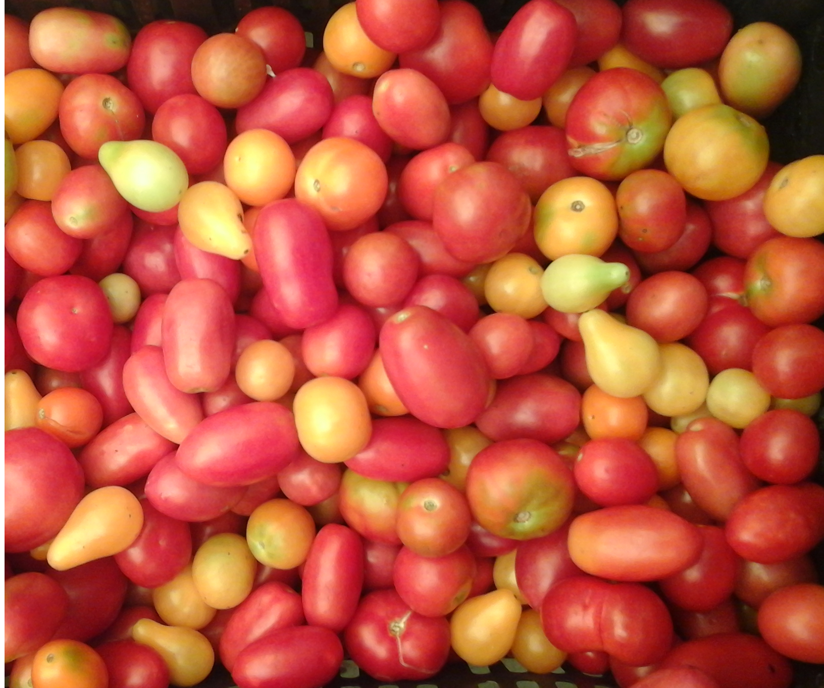 Vegetables at organic fair of Redenção, city of Porto Alegre, southern Brazil. Year 2017.